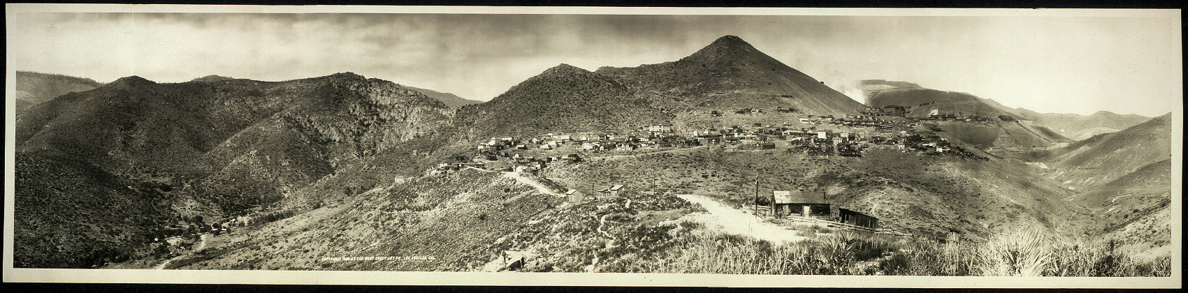 Panorama of Jerome, Arizona, c. 1909